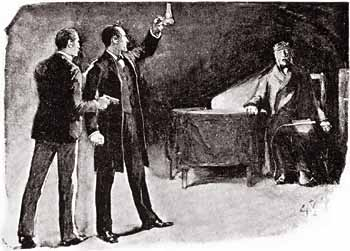 Illustration of the Sherlock Holmes short story The Speckled Band, which appeared in The Strand Magazine in February, 1892. Original caption was "HE MADE NEITHER SOUND NOR MOTION."